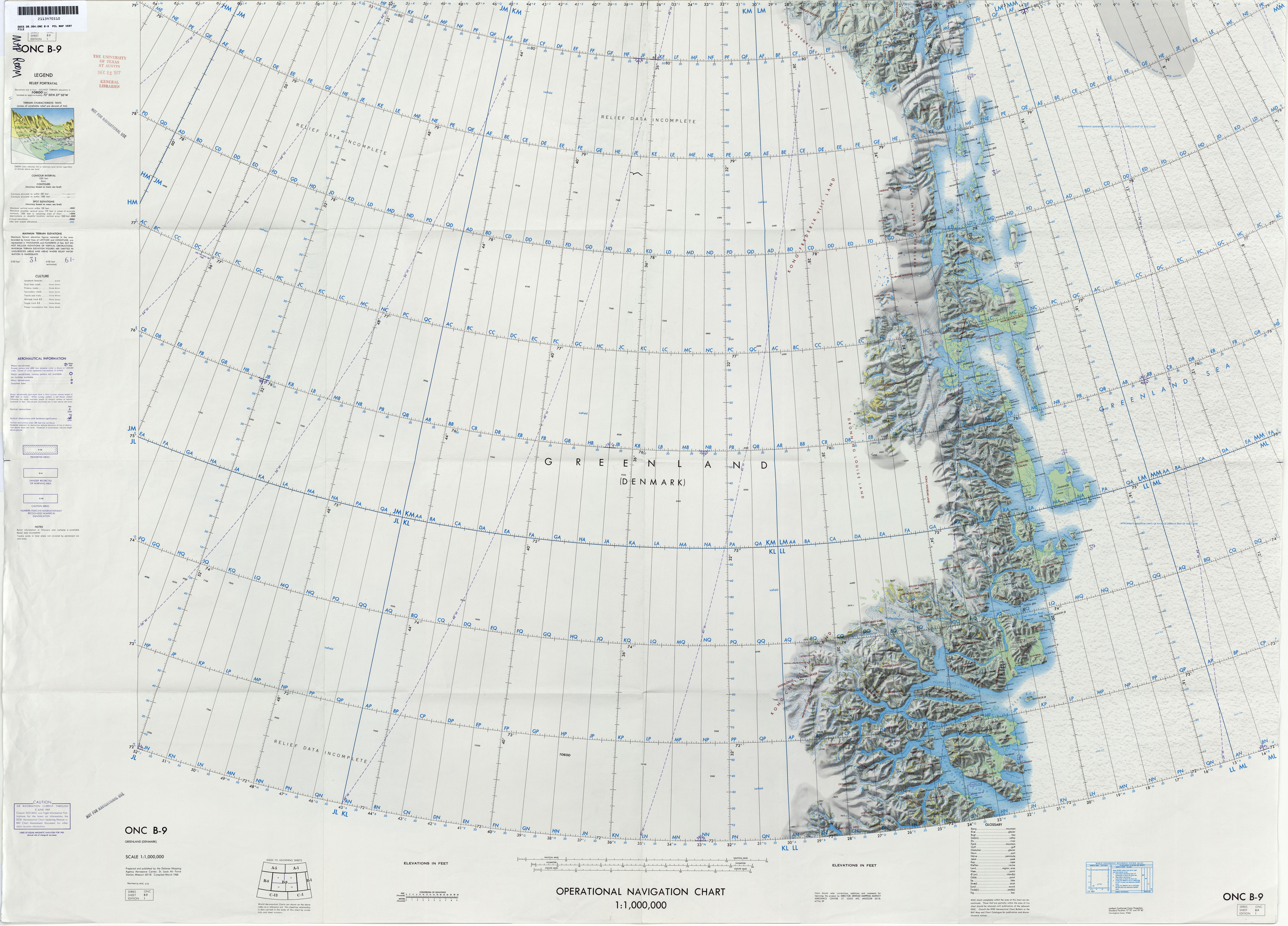 1:1,000,000 scale Operational Navigation Chart, Sheet B-9, 1st edition. Covers Greenland (Denmark). Lambert Conformal Conic Projection. Standard Parallels 73 20N and 78 40N. Central longitude 32 45W.